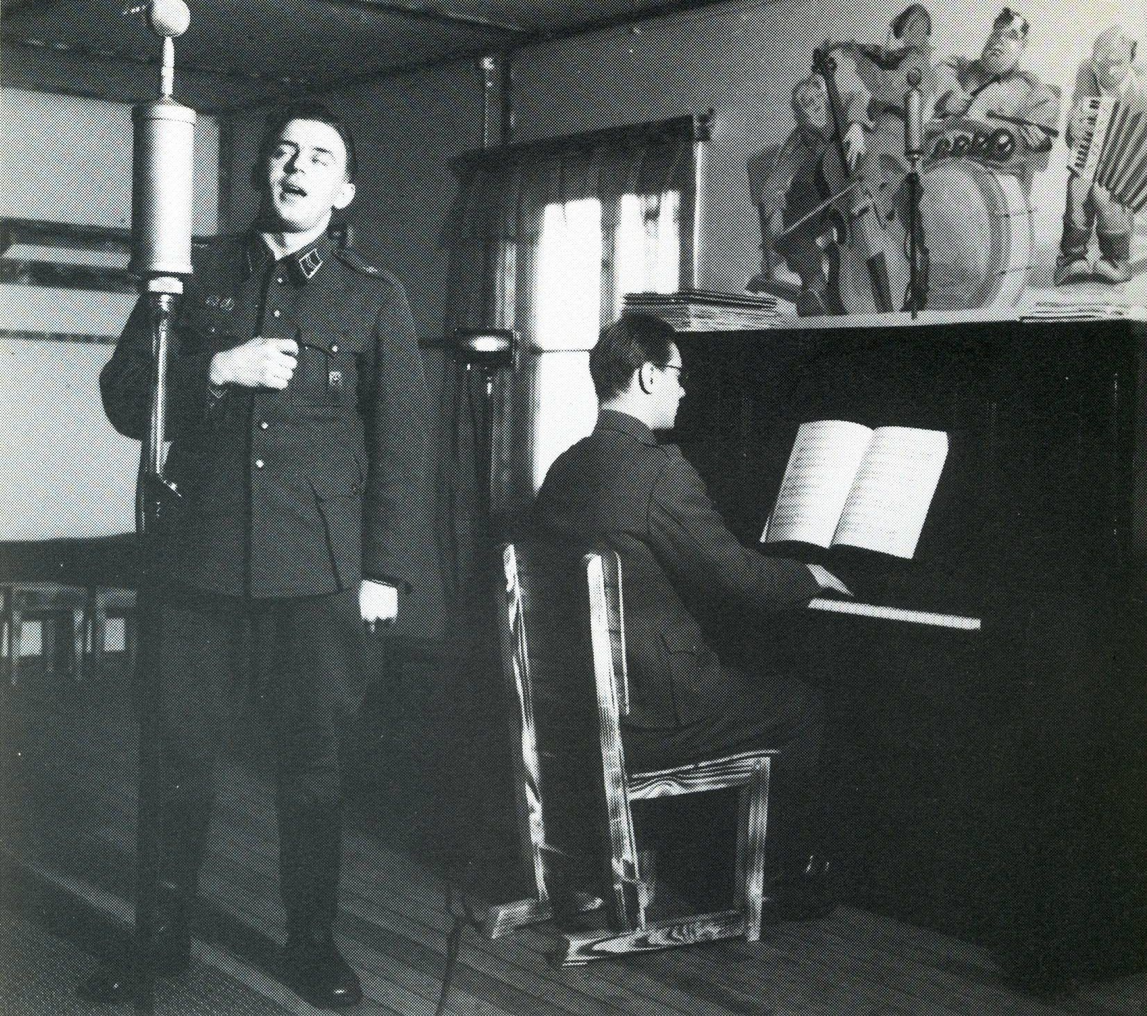 Olavi Virta finnish singer